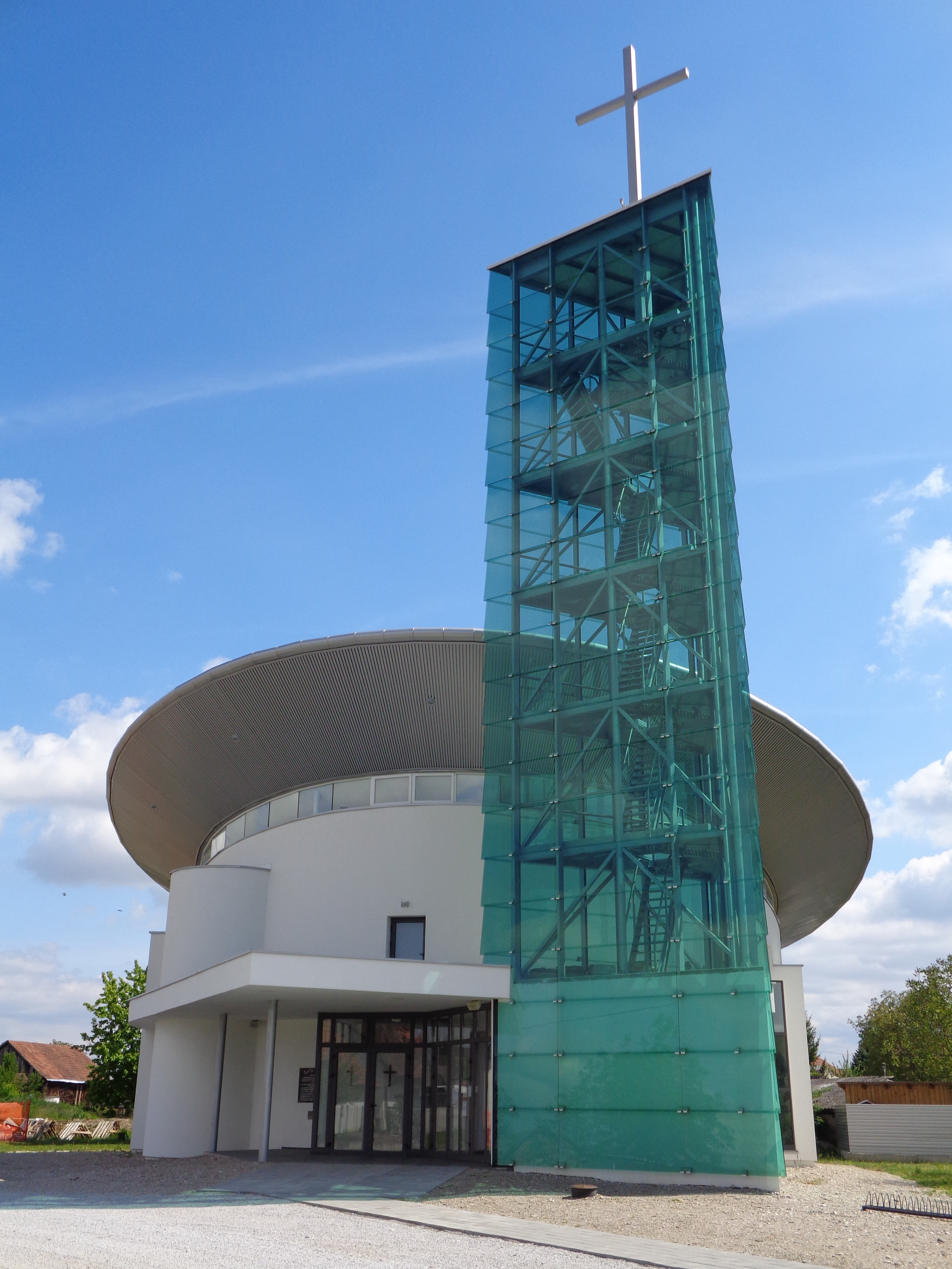 Church of Mary Help, Strahoninec, Međimurje County, Croatia - north view